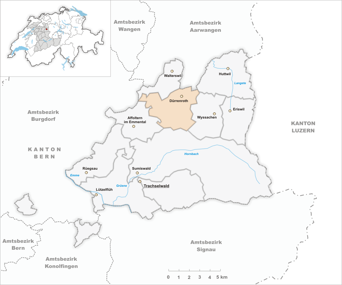 Municipality Dürrenroth